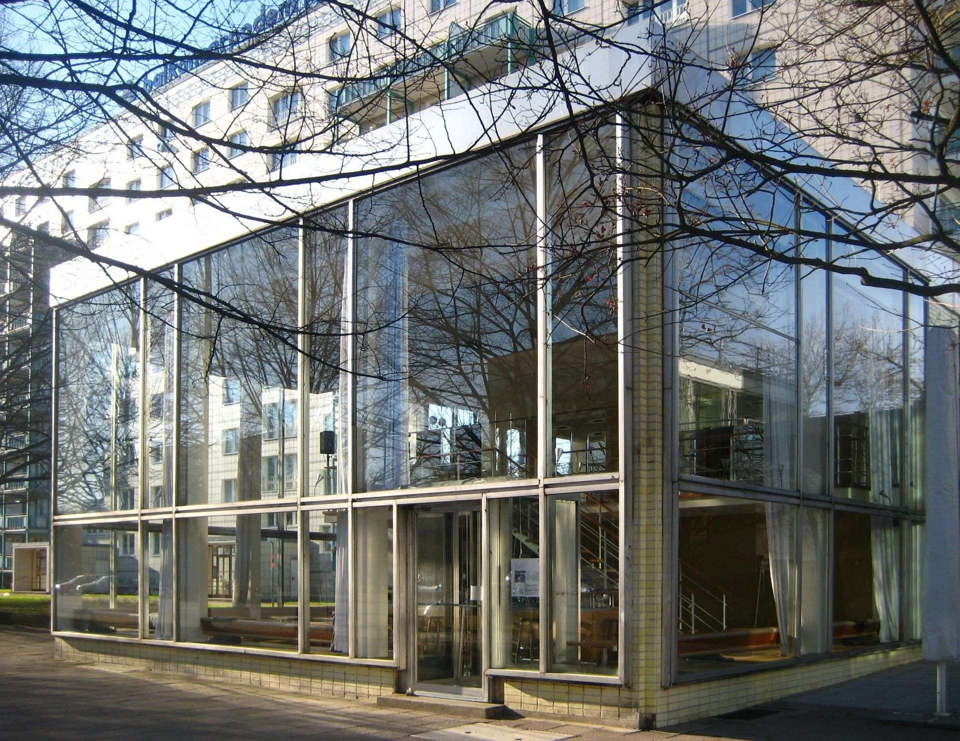 The former beauty parlor "Babette" at Karl-Marx-Allee No. 36 in Berlin-Mitte, now a bar under the same name. The pavilion was built in 1962 during construction of the western part of Karl-Marx-Allee. The design is by the architects Josef Kaiser and Horst Bauer. The pavilion is part of a historic landmark also encompassing "Kino International" and "Café Moskau".